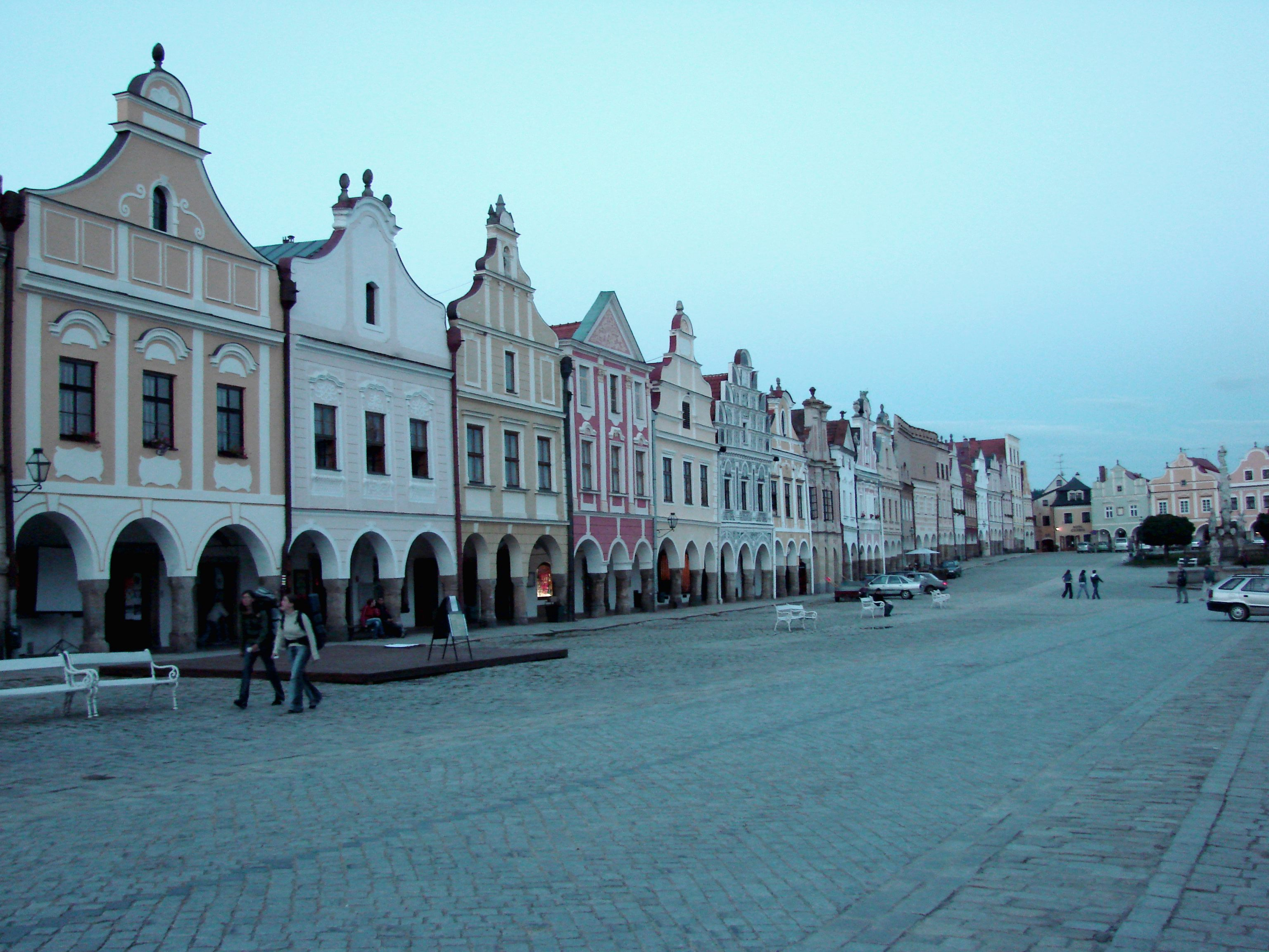 I took this photograph in august 2006. This is the main square with 16th century houses.